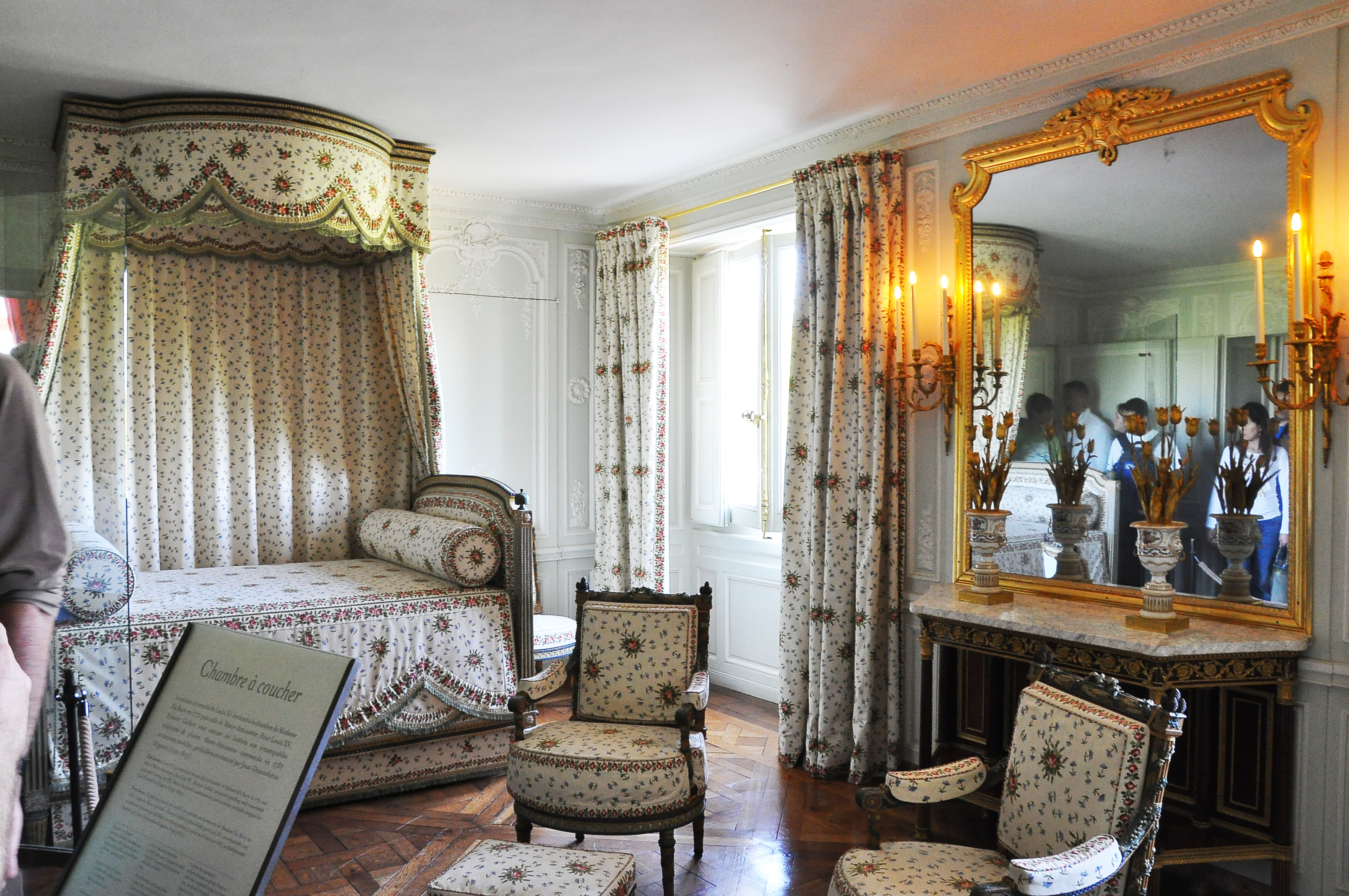 Queen's Chamber of the Petit Trianon in Place of Versailles in Versailles in the department of Yvelines in France.